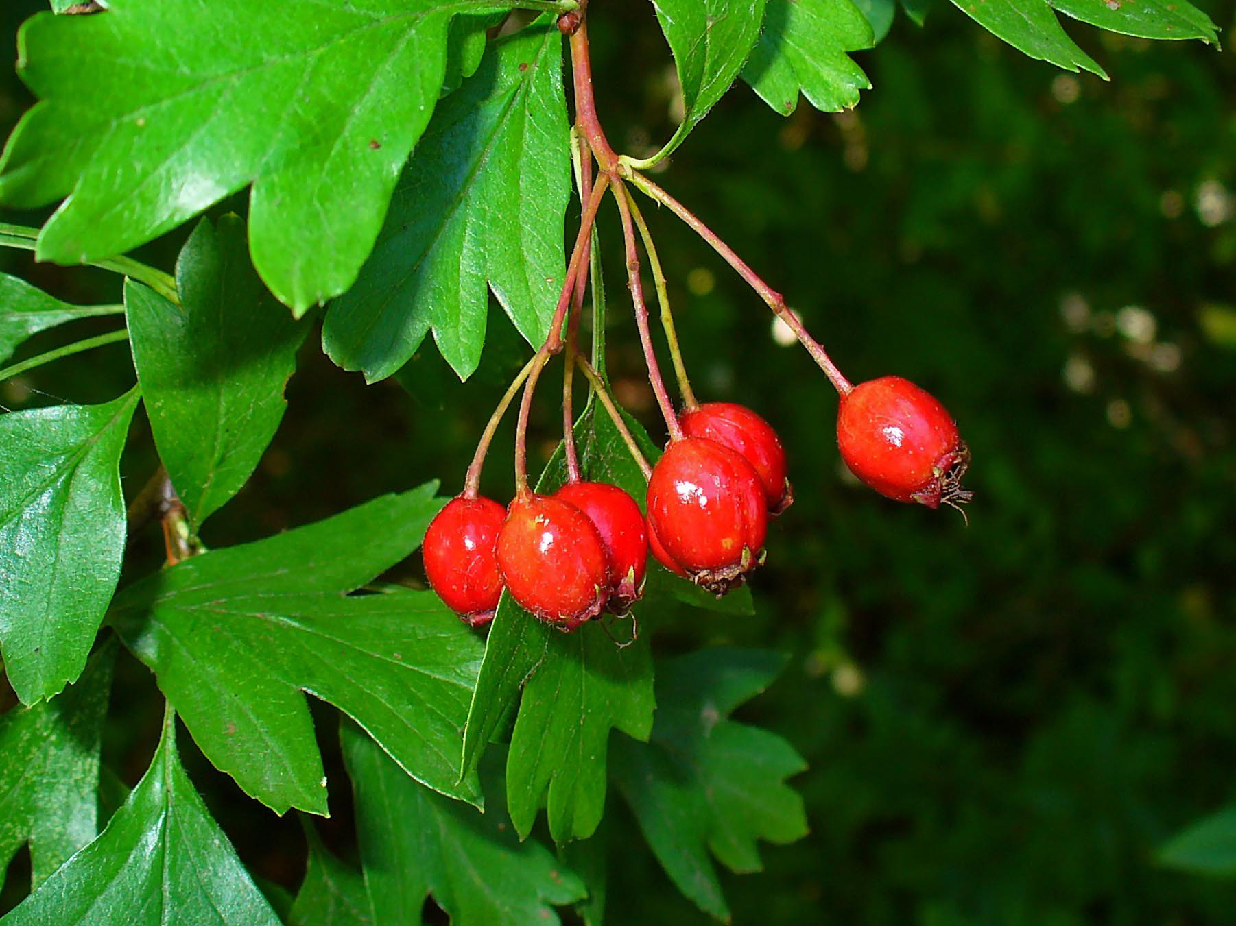 Crataegus monogyna, Rosaceae, Common Hawthorn, Mayblossom, Maythorn, Quickthorn, Whitethorn, Motherdie, Haw, fruits; Karlsruhe, Germany. The fresh ripe fruits are used in homeopathy as remedy: Crataegus (Crat.)